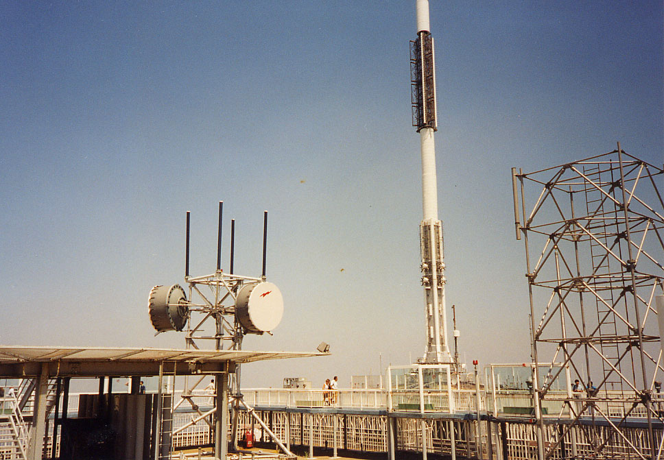 "WTC Observation Deck"